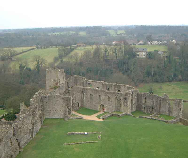 view from Richmond Castle's keep.